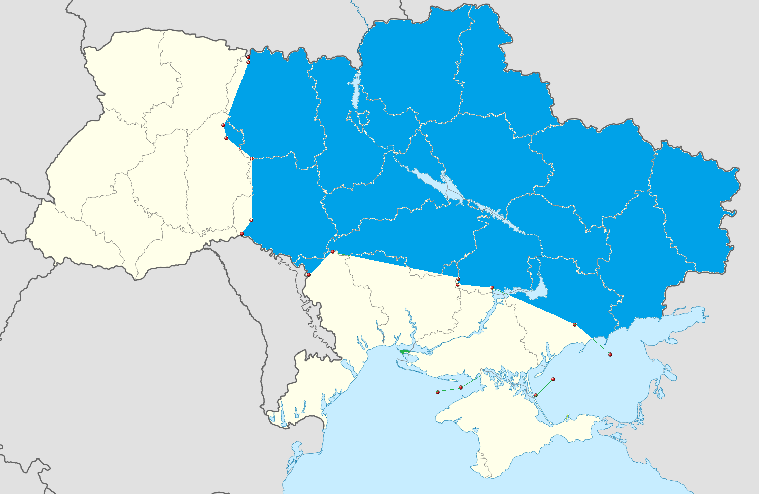 Повітряний простір України поділяється на три військово-повітряні зони та один окремий військово-повітряний район, межами яких є умовні вертикальні поверхні, що проходять по лінії державного кордону України на суші, морі, річках, озерах, інших водоймах та по прямих лініях між визначеними географічними точками з урахуванням повітряного простору над тимчасово окупованою територією України. Військово-повітряні зони є зонами відповідальності повітряних командувань "Захід", "Південь" та "Центр"